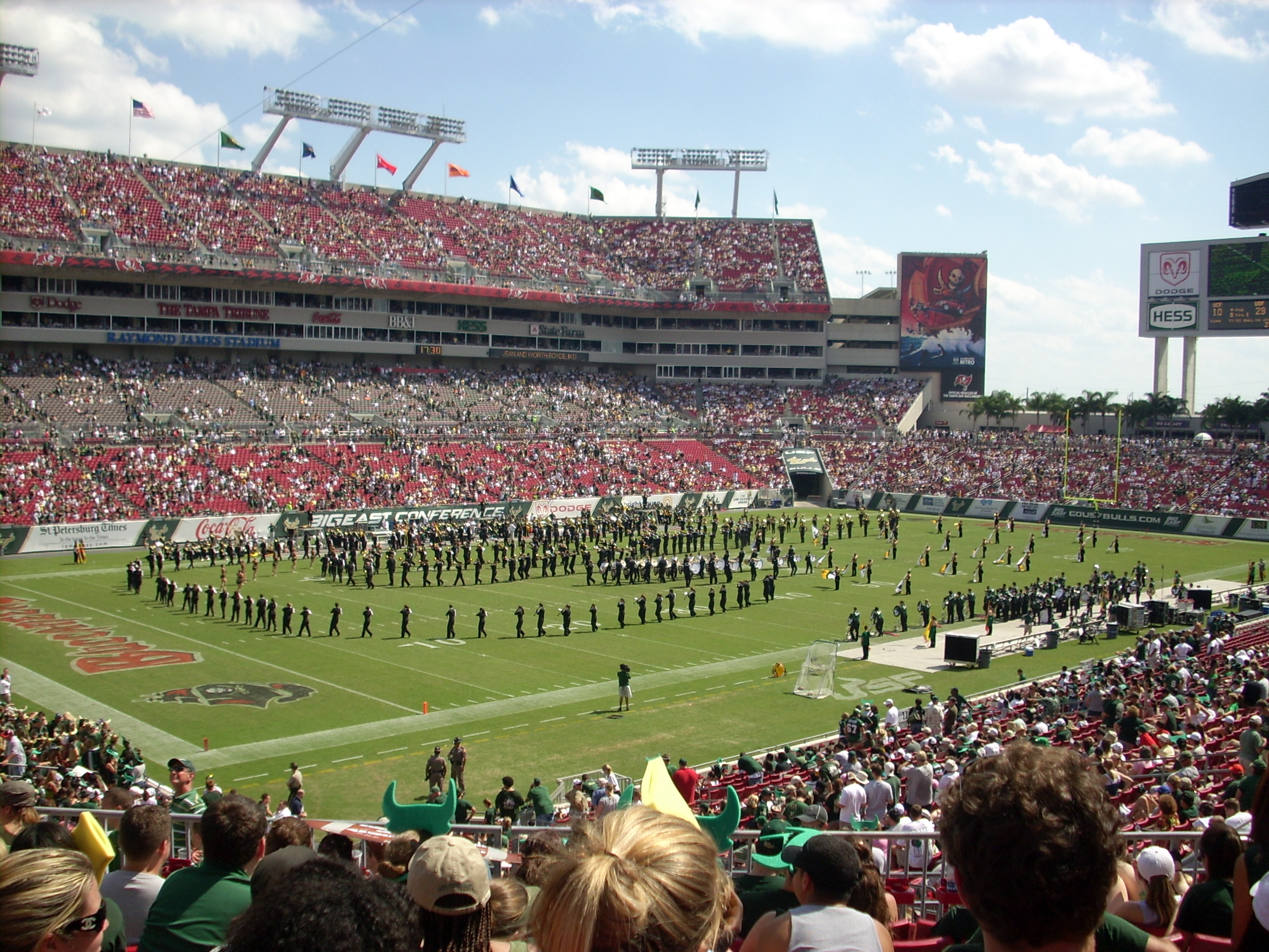 USF Bulls game against UCF. Raymond James Stadium; Tampa, FL